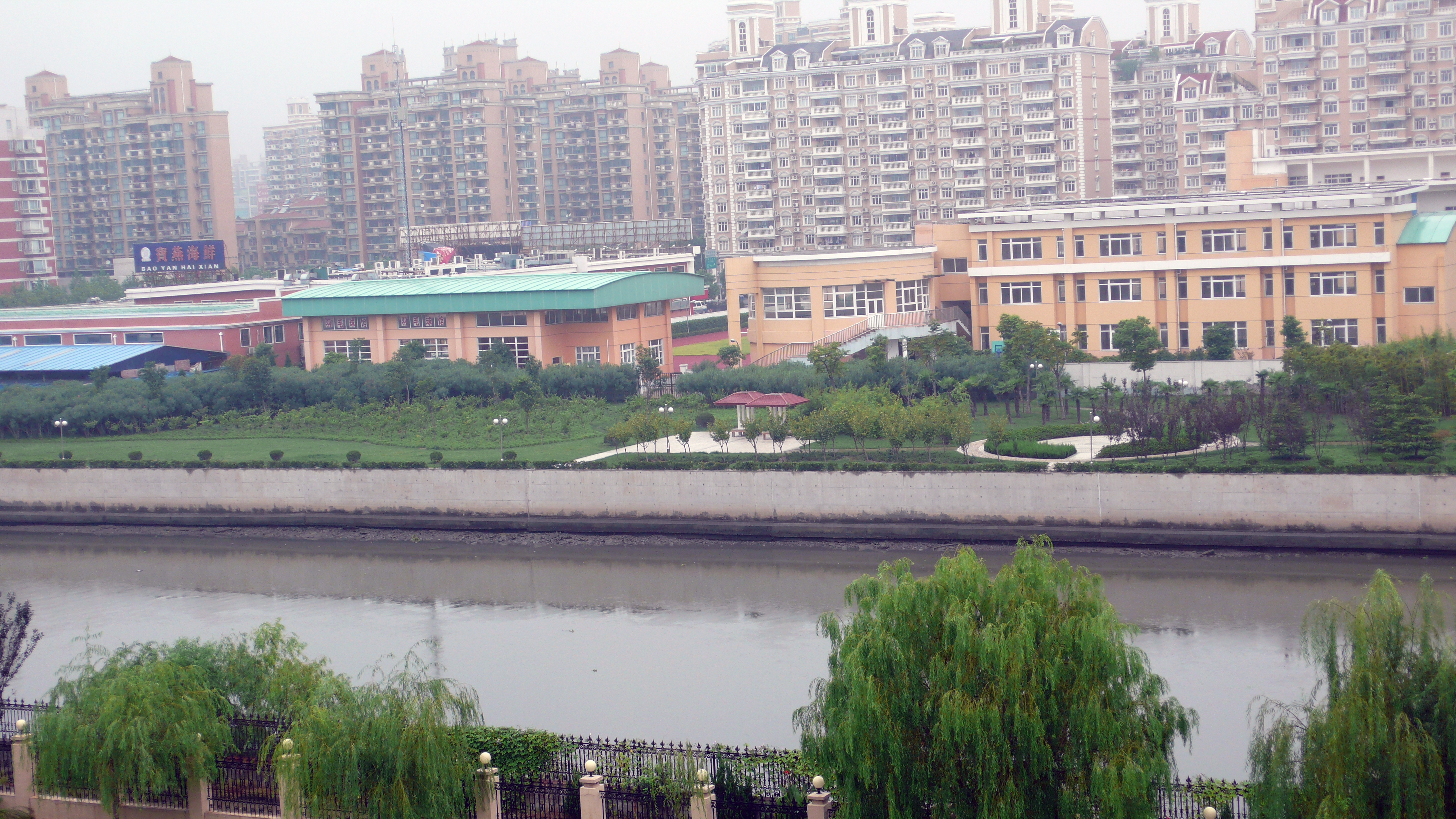 Dianpu river